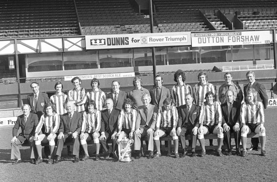 This photograph is the property of the Sunderland Echo. Full permission for use will be sent shortly. Anyone wanting to buy this picture at full size can contact the Sunderland Echo on 0191 501 5800.